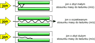 Ion passing/not passing quadrupole mass analyser, used in mass spectrometers.